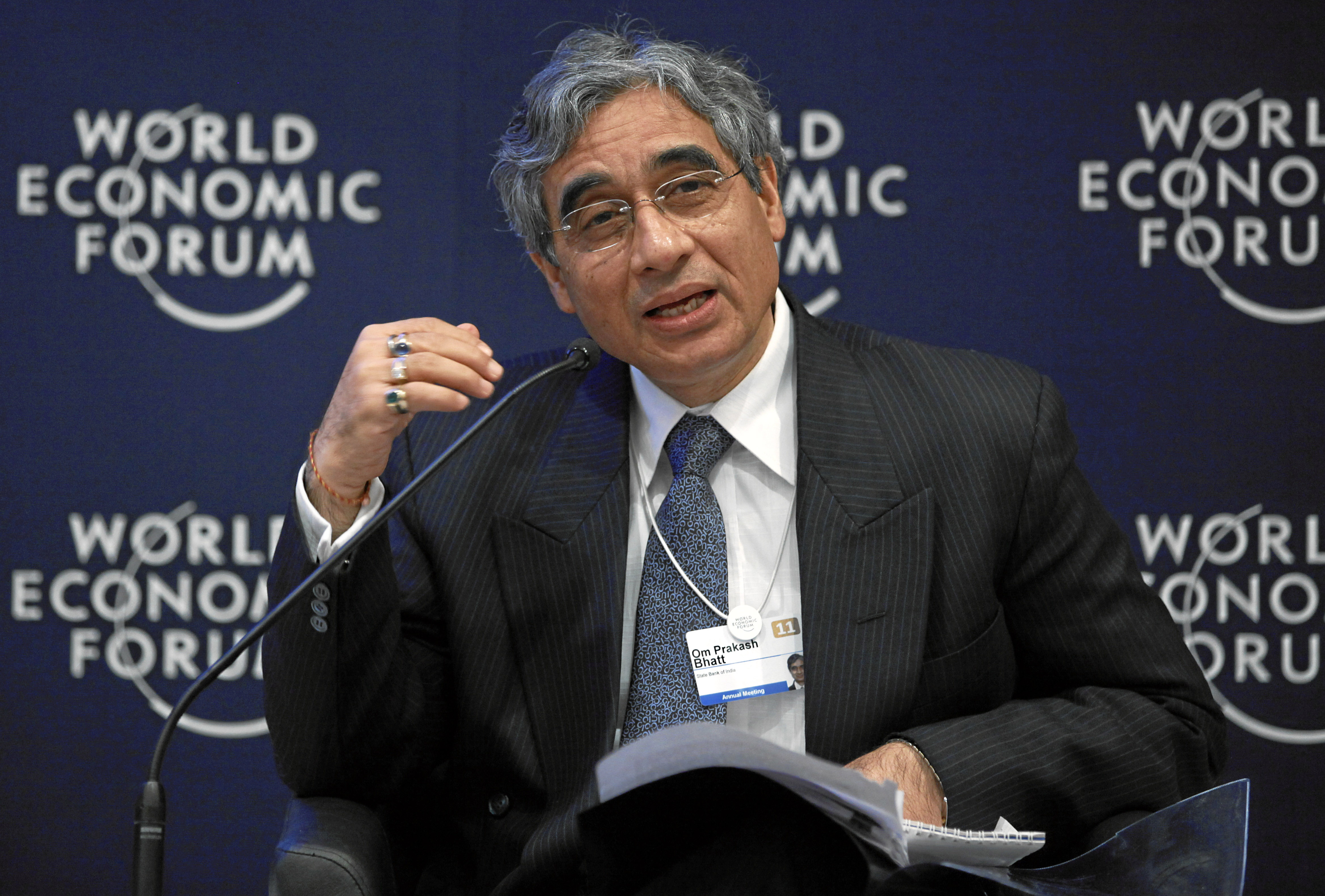 DAVOS/SWITZERLAND, 28JAN11 - Om Prakash Bhatt, Chairman, State Bank of India, India, speaks during the session 'Redeploying Development Finance' at the Annual Meeting 2011 of the World Economic Forum in Davos, Switzerland, January 28, 2011. Copyright by World Economic Forum by Moritz Hager